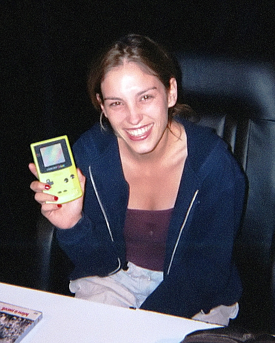 Amy Jo Johnson holding a Game Boy Color at E3 2000.